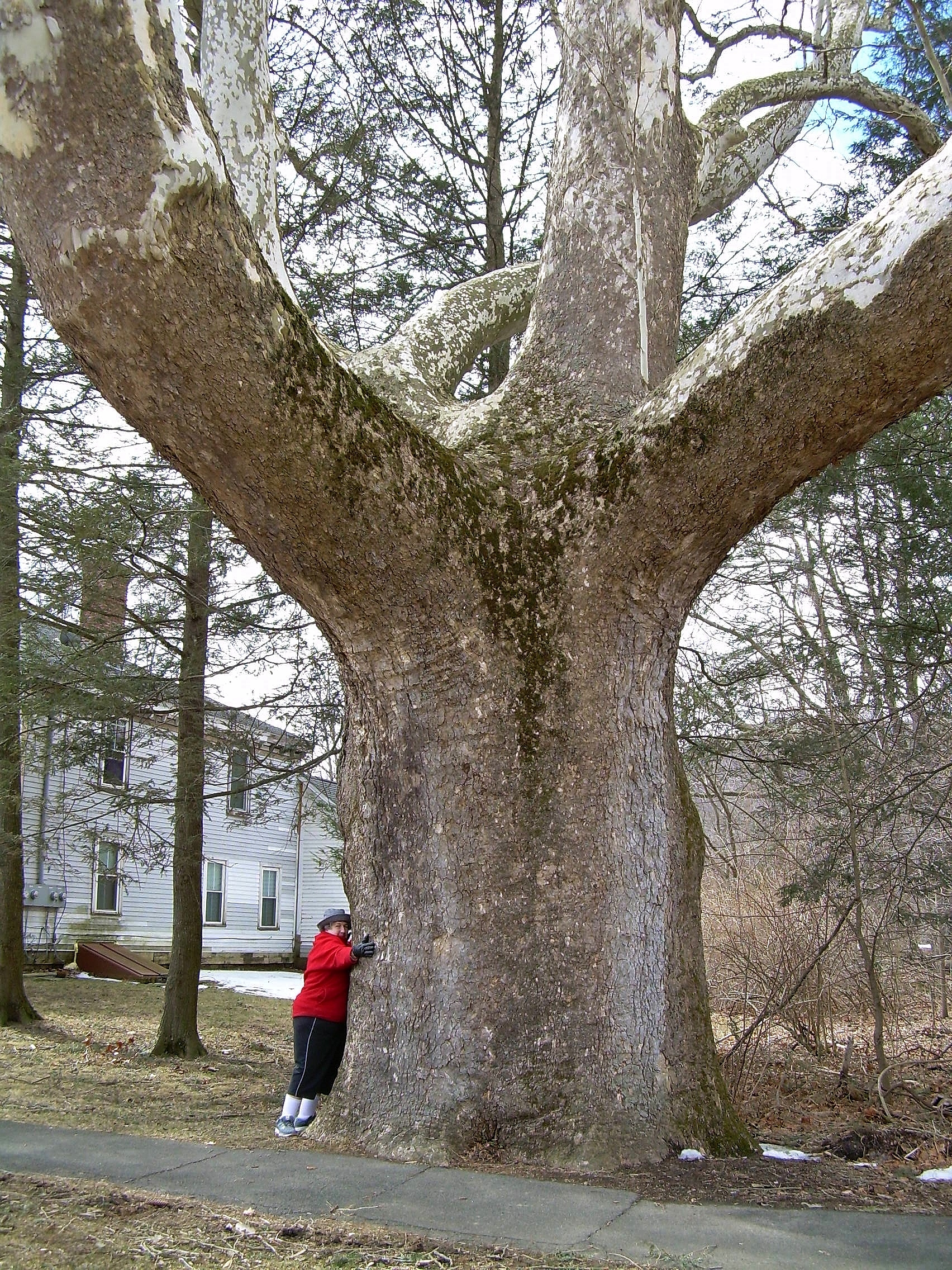 Photograph of the "Buttonball" sycamore tree, located in Sunderland, Massachusetts (March 2019). In November 2019, the tree measured 25 feet, 8 inches in circumference at 4.5 feet high.